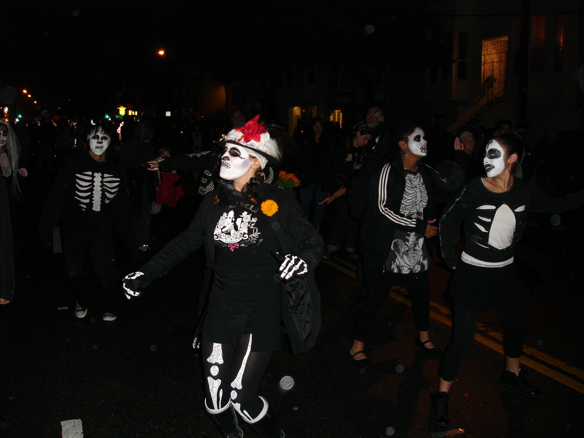 Picture of the November 2nd "Day of the Dead", or in Spanish "Dia de los Muertos", procession and altars in the Mission District, San Francisco, California. It is annually celebrated in San Franciso since 1988. Many participants come in costumes, where dark or black and white colors are prevalent, with faces painted to emulate skulls, or with skull masks. The procession goes through several streets in the Mission District, ending at the Gardfield park where altars are set up. The organizers ( explain the tradition in the following way: "Dia de los Muertos is a traditional Meso-American holiday dedicated to the ancestors; it honors both death and the cycle of life. In Mexico, neighbors gather in local cemeteries to share food, music, and fun with their extended community, both living and departed. The celebration acknowledges that we still have a relationship with our ancestors and loved ones that have passed away. In San Francisco, Day of the Dead has been celebrated in the Mission district since the early 70s with art, music, performances and a walking procession, which help us contemplate our existence and mortality -- a moment to remember deceased friends and family, and our connections beyond our immediate concerns." For the 2013 procession, the organizers described the event as follows: "Over 15,000 people will gather in the Mission to participate in the 26th Annual Dia de los Muertos or Day of the Dead Procession & Altars. Through art, music, and ritual this event honors our ancestors and celebrates the vitality and richness of today's community. While the ceremony remains true to its Latino roots, the San Francisco procession actively encourages participation by people of all origins. Bring candles, photos, food, or something that reminds you of a person that has passed away. The altars are community art installations that are intended to change as each person adds something to the hearth"